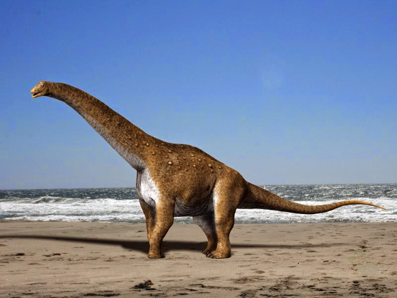 Life reconstruction of Hypselosaurus priscus